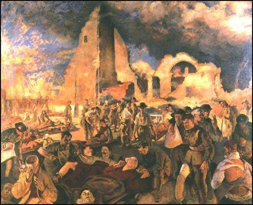 An Advanced Dressing Station in France